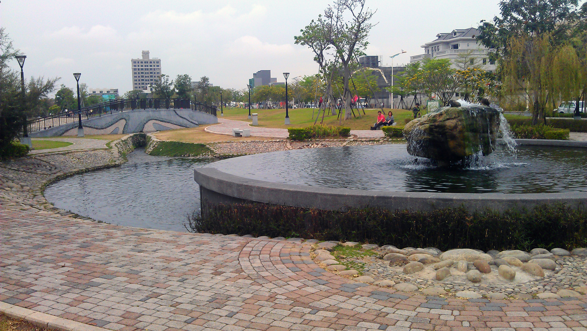 Taichung New Capital Ecological Park, Beitun District, Taichung City, Taiwan中文（台灣）: 新都生態公園